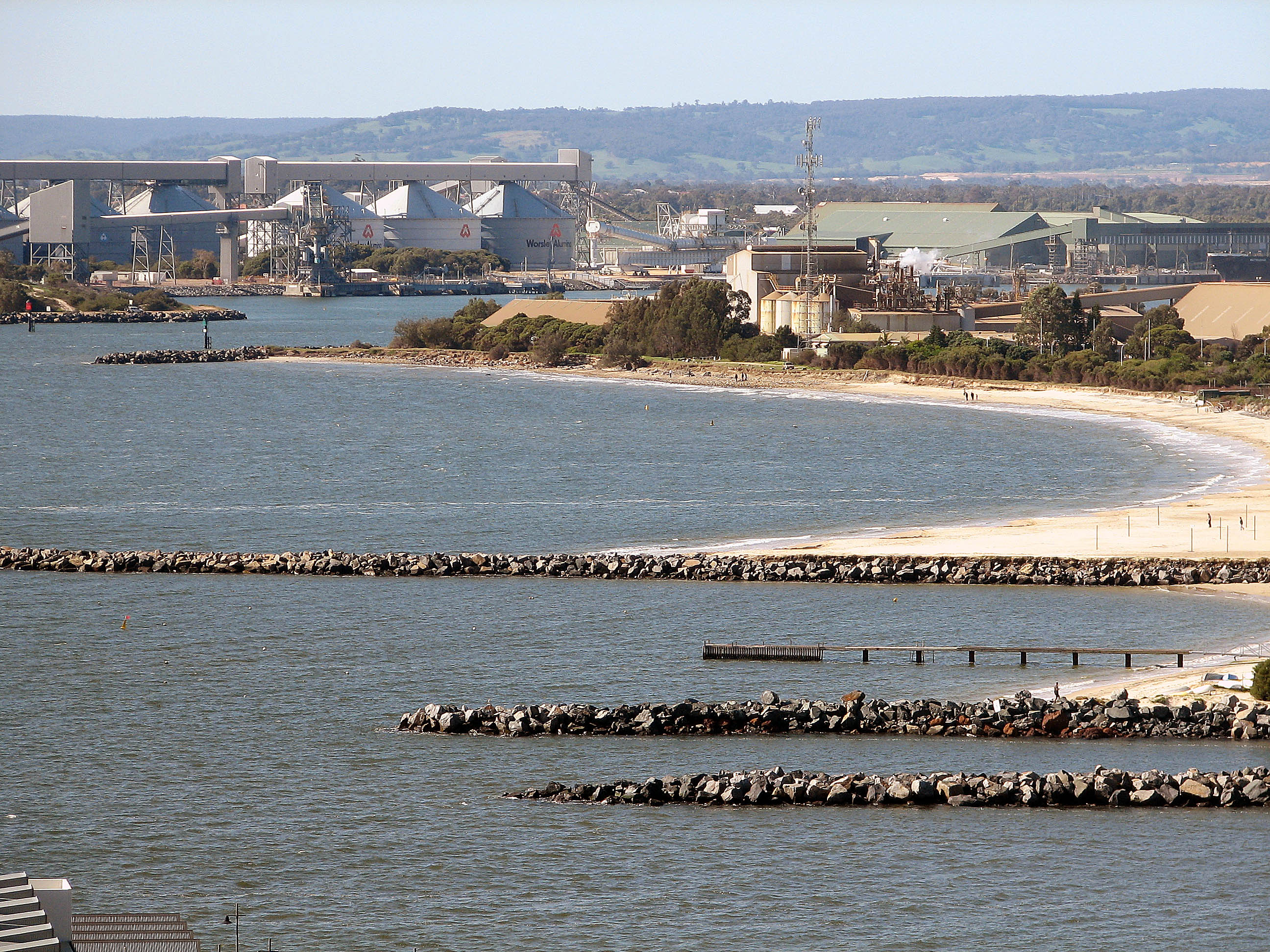 Bunbury, Western Australia, view of the harbour from the lookout tower